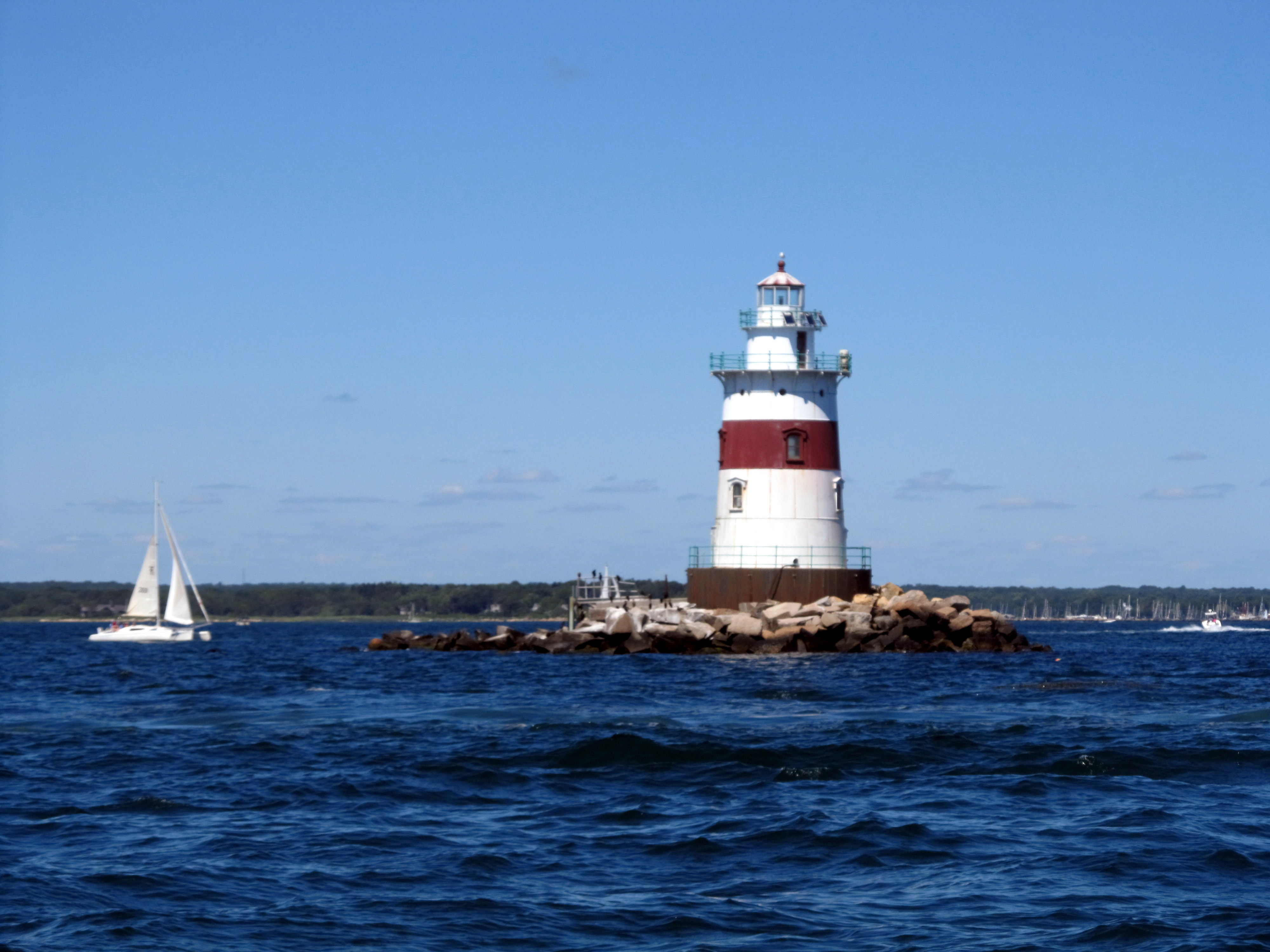 Latimer Reef Light in August 2013